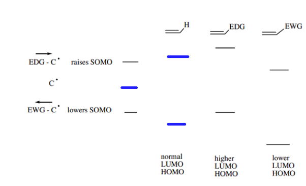 fdsfsa